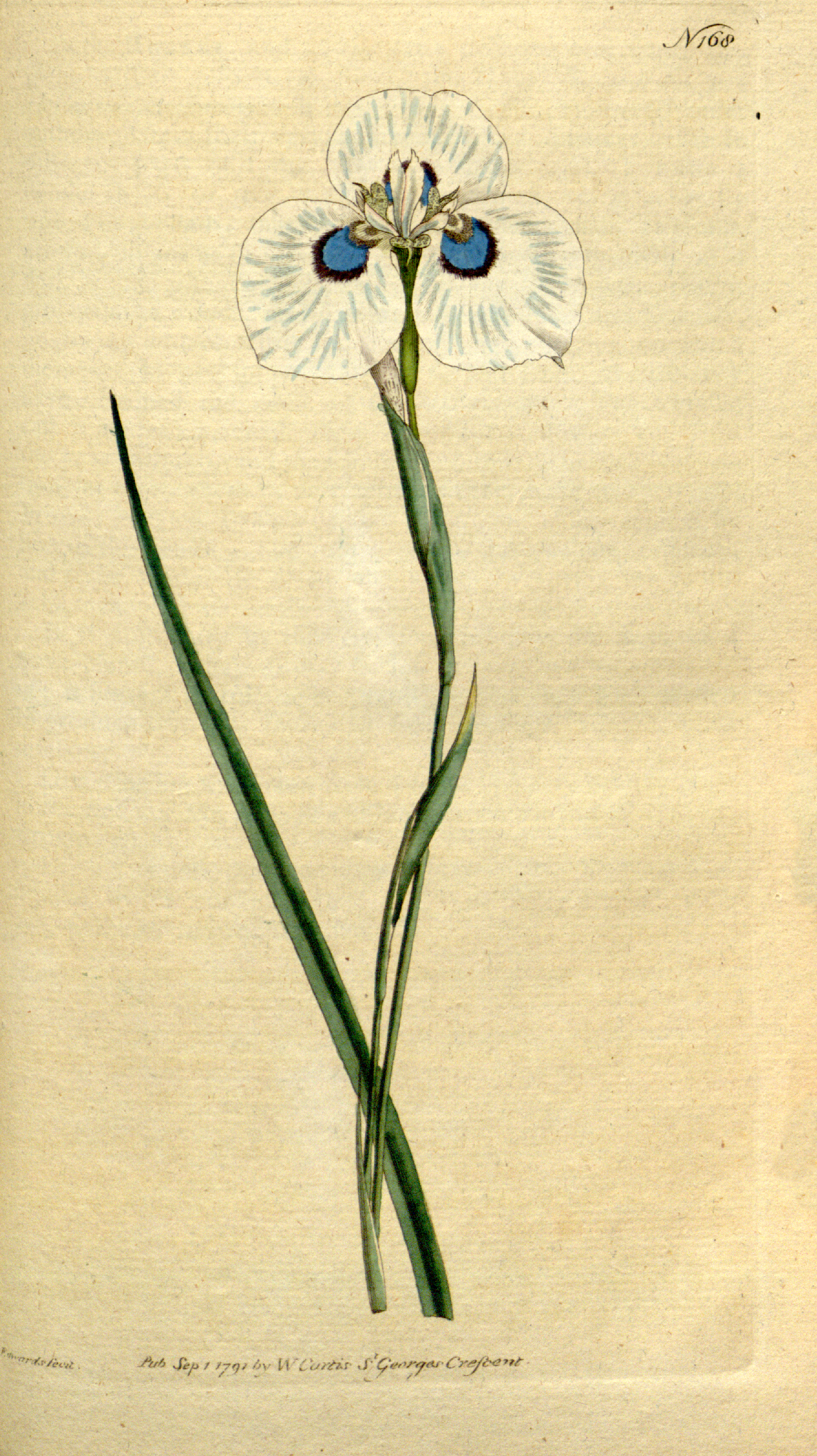 Moraea aristata (D.Delaroche) Asch. & Graebn. (as Iris pavonia Curtis, nom. illeg.). This is a plate from The Botanical Magazine, Volume 5.